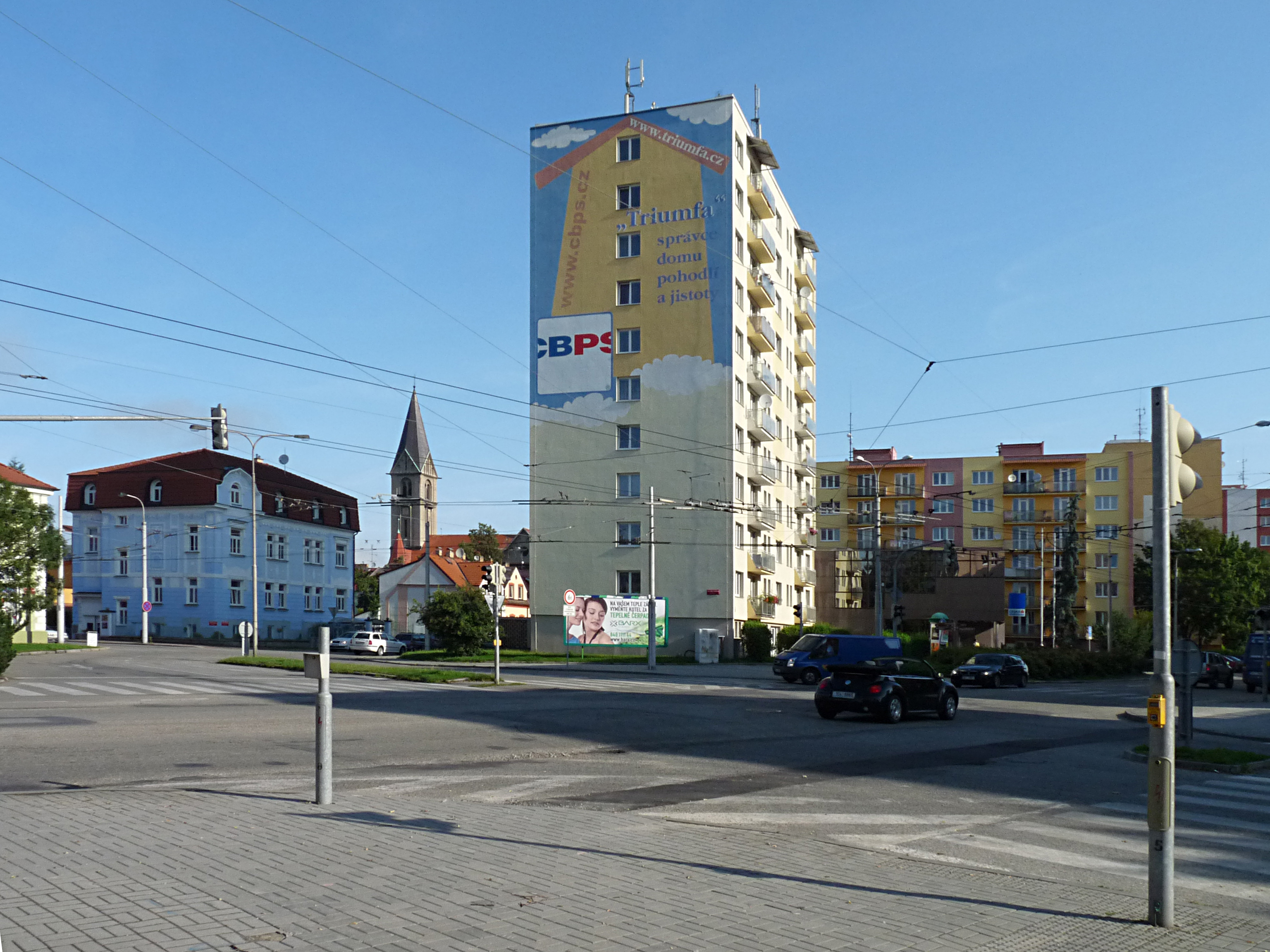 George of Poděbrady Square in Rožnov, part of České Budějovice, Czech Republic, aka Regina named after the low building betwwen the two blocks of flats